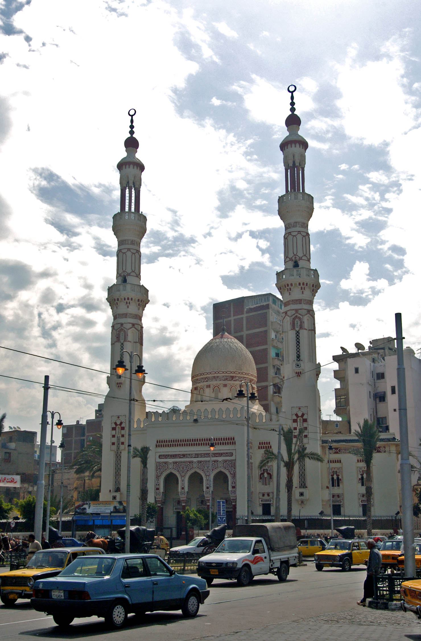 TERBANA MOSQUE LOCATED RIGHT NEAR THE PIER IN THE WESTERN HARBOR IN THE ANFUSHI DISTRICT; 1684 UNDER THE OTTOMANS AND ALAWIYYA DYNASTY